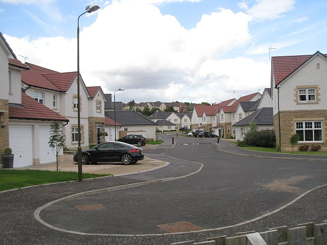 Glen Village New housing development on the southern edge of Falkirk.